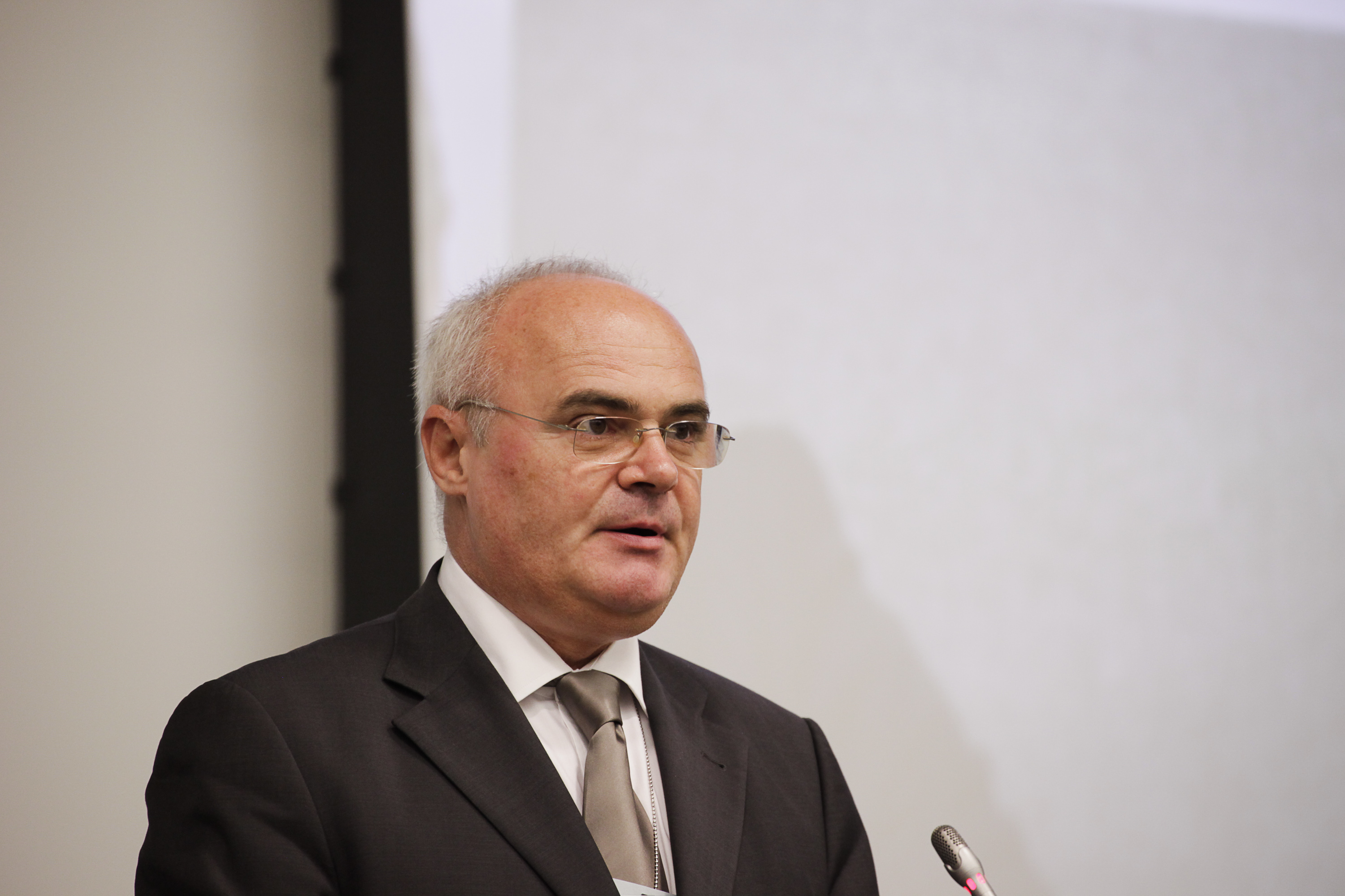 23 September 2011 - New York Deputy Minister of Foreign Affairs of Romania Doru Costea at the Conference on Facilitating the Entry into Force of the Comprehensive Nuclear-Test-Ban Treaty. Photographer: James Leynse Copyright CTBTO Preparatory Commission